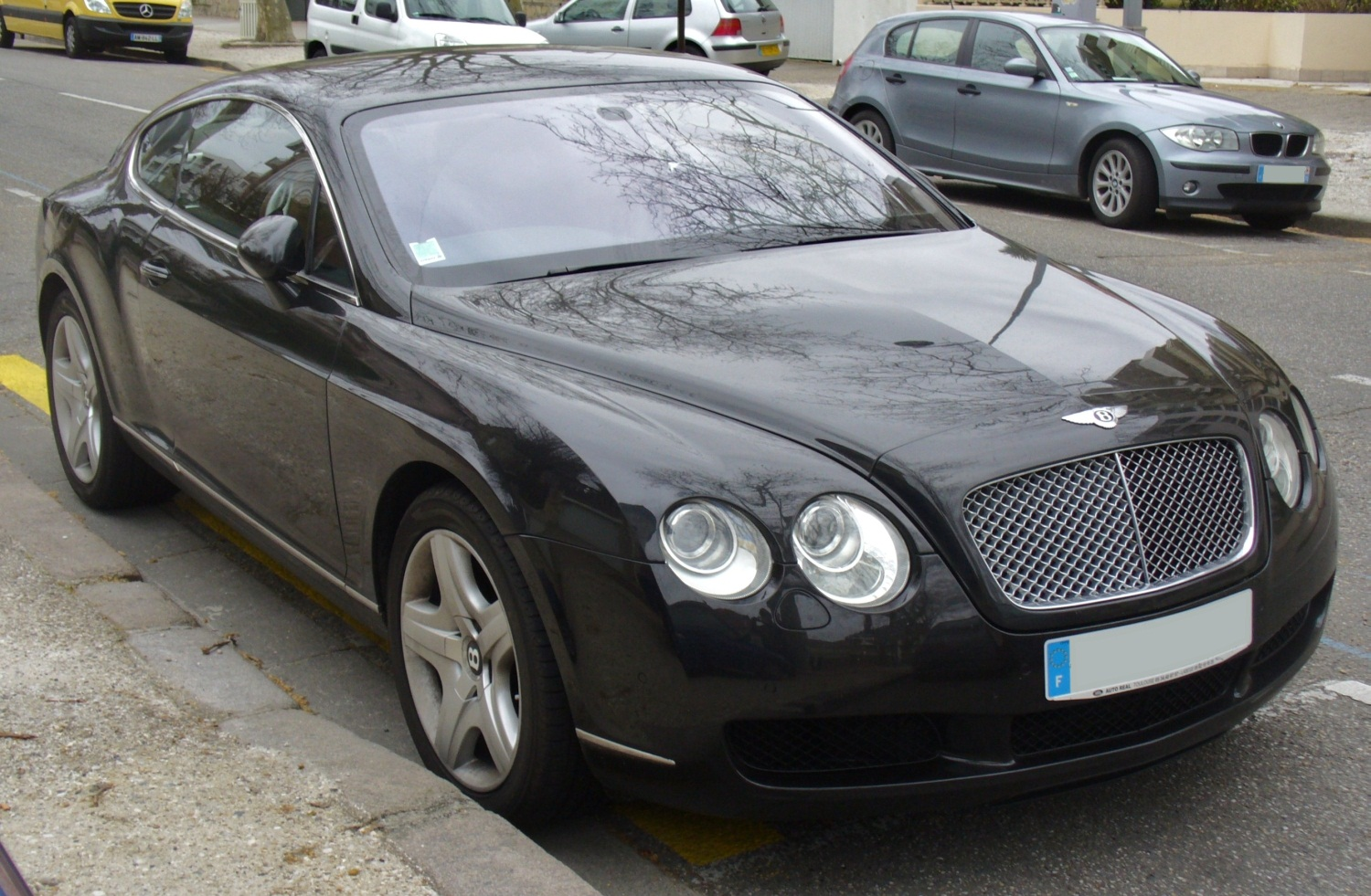 Bentley Continental GT